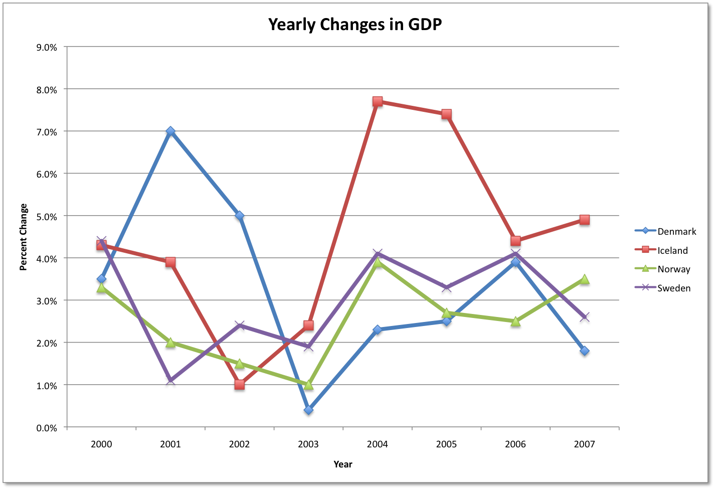 Yearly changes in GDP in Iceland, Denmark, Norway and Sweden in percentages between 2000-2008. Data is based on data provided by Statistics bureau of Iceland ( Original Icelandic version can be found here.